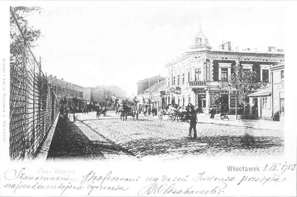 Part of nowadays Wolności Square in Włocławek, which was then Żelazna street on photograph by Bolesław Sztejner, made before 1902 year. On the background there is a Mühsam's Palace. On the left there is a fence of former Saski Garden (Park).